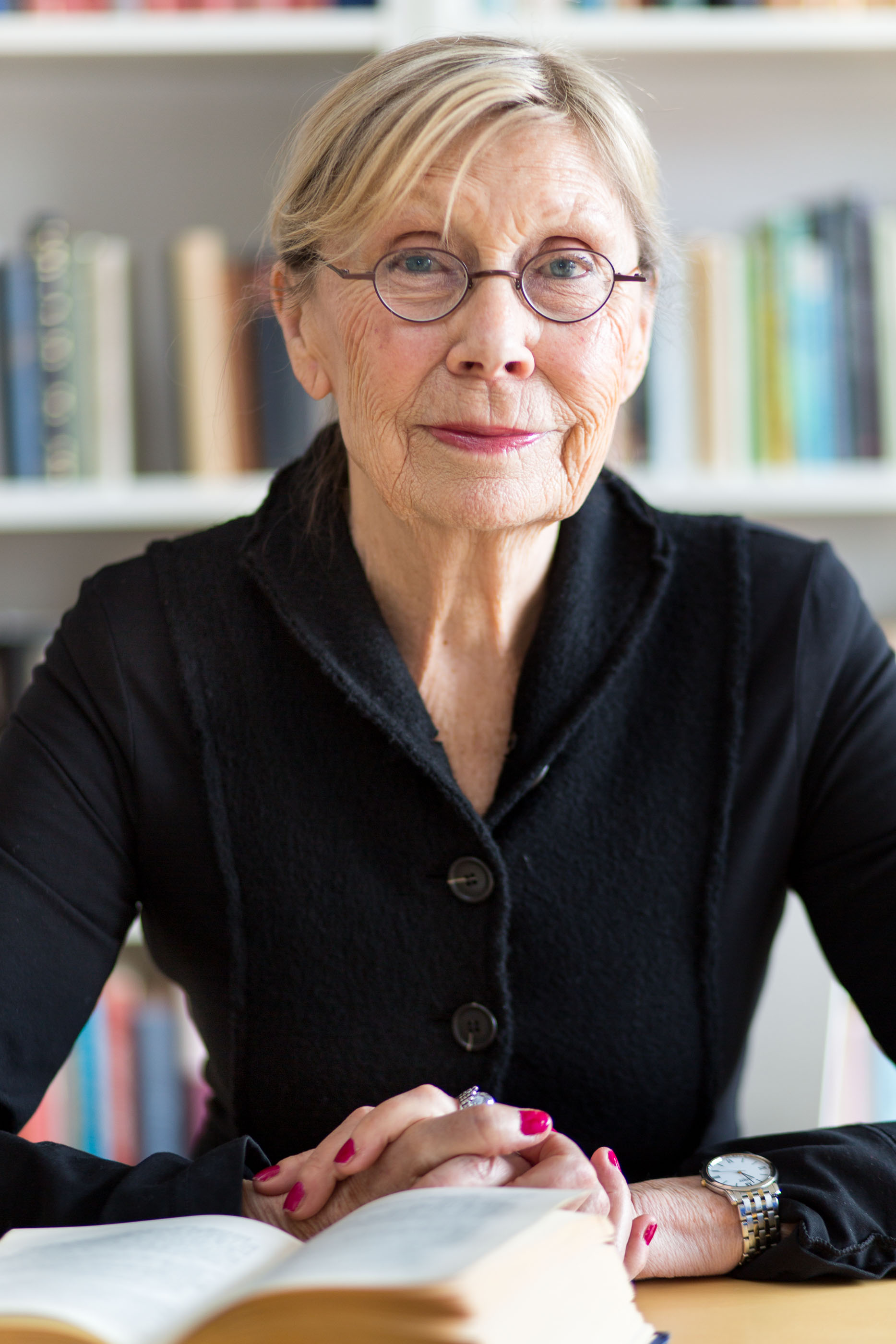 Carin Mannheimer, photograph by Hendrik Zeitler, 2013.